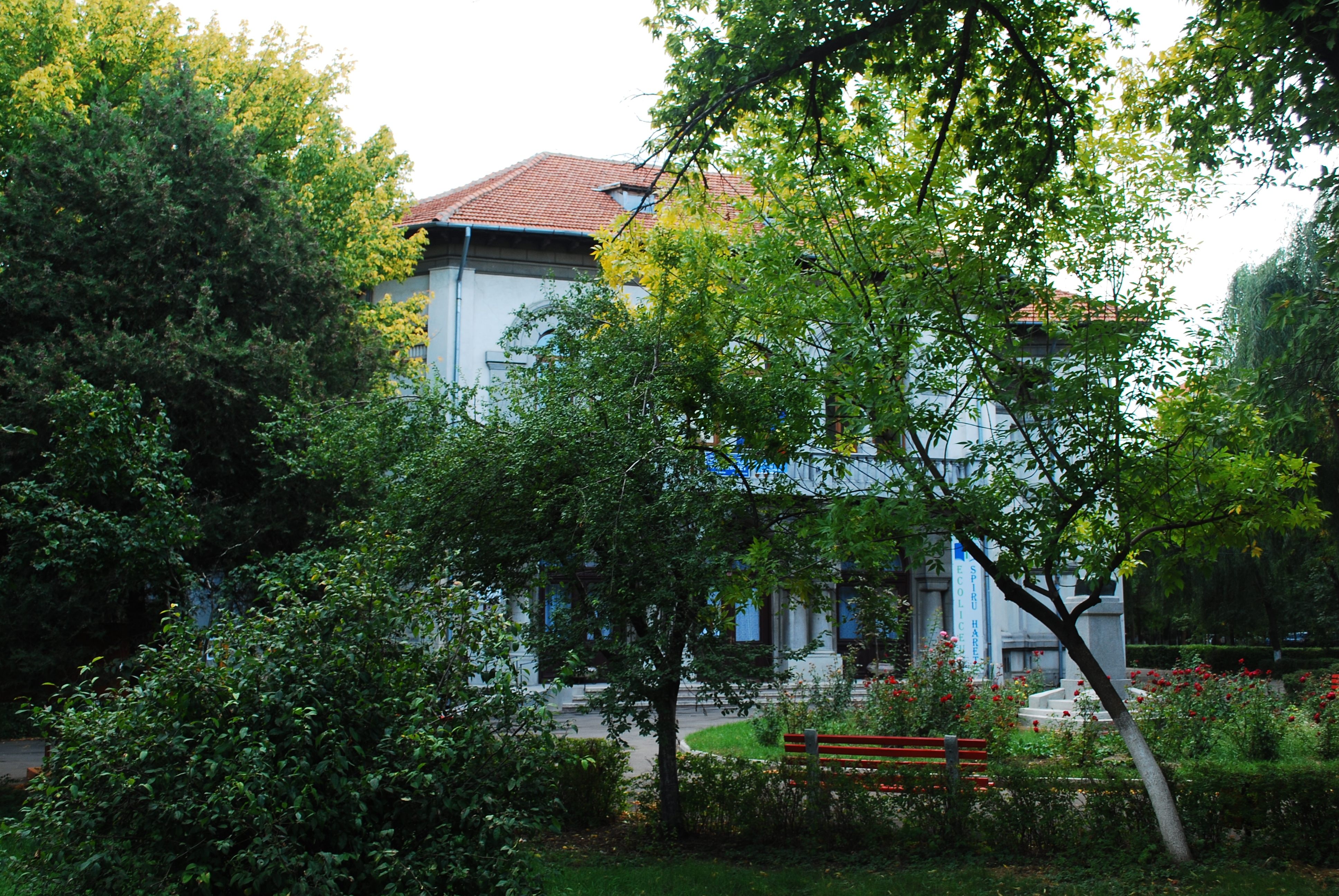 Spiru Haret high-school in Buzău, Romania